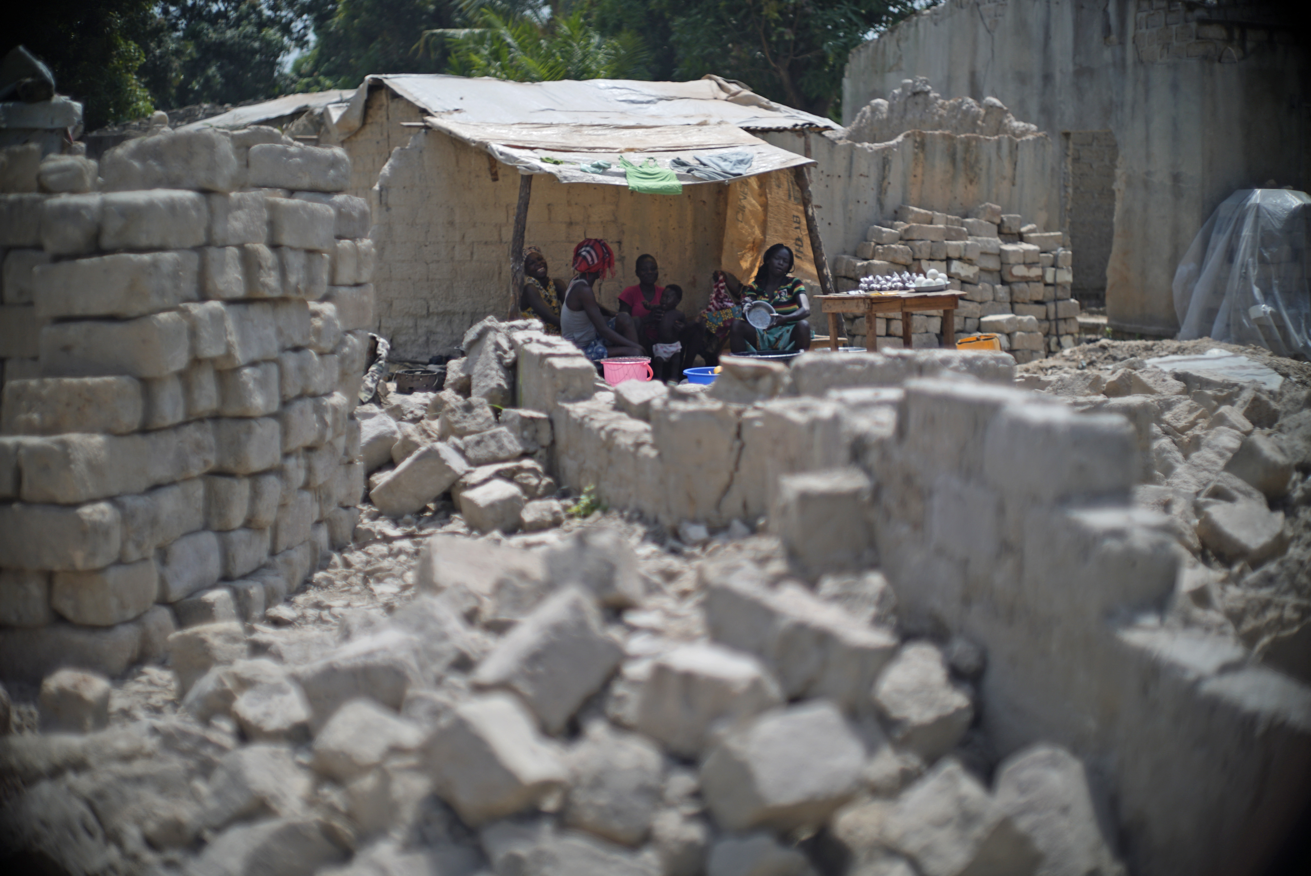 A family uses tarps taken from a refugee camp to get shelter from the sun, with bricks for rebuilding their homes all around them in the PK5 neighborhood of Bangui, Feb. 2017. (Z. Baddorf/VOA)